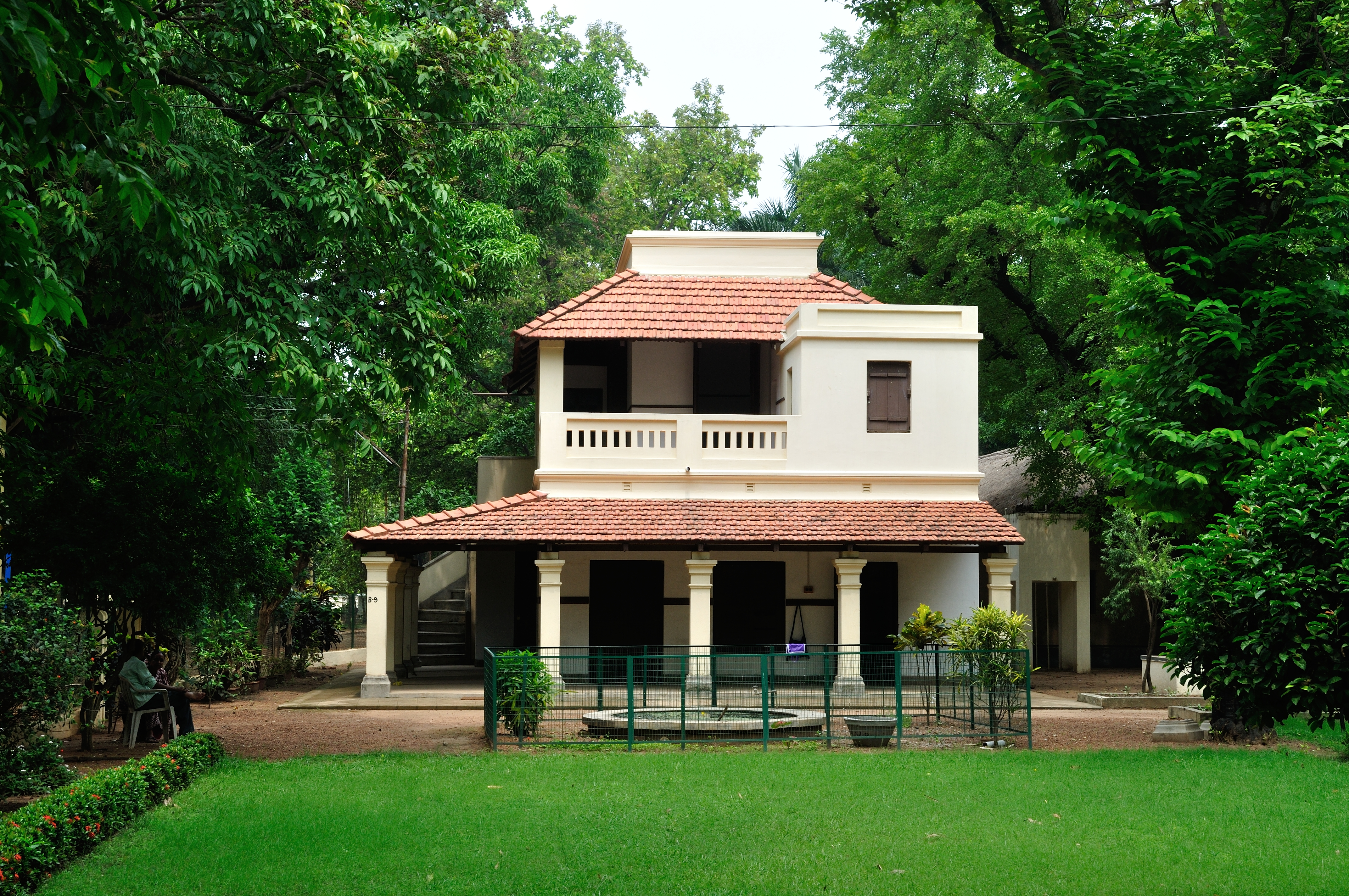 Dehali was built in 1904 and Rabindranath lived here for a while. Photographed at the Visva-Bharati, Santiniketan.